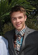 TIFF Rising Stars Tatiana Maslany (Picture Day) Charlie Carrick (an alumni of the CFC Actors Conservatory), Connor Jessup (Blackbird) and Charlotte Sullivan (“Rookie Blue”) with CFC founder Norman Jewison. The Canadian Film Centre (CFC) Annual BBQ was held on Sept. 9, 2012 in Toronto, Ontario in celebration of Canadian Talent at the Toronto International Film Festival. Learn more about the Annual BBQ by visiting To find out more about the Canadian Film Centre, please visit: Photo by Tom Sandler Photography